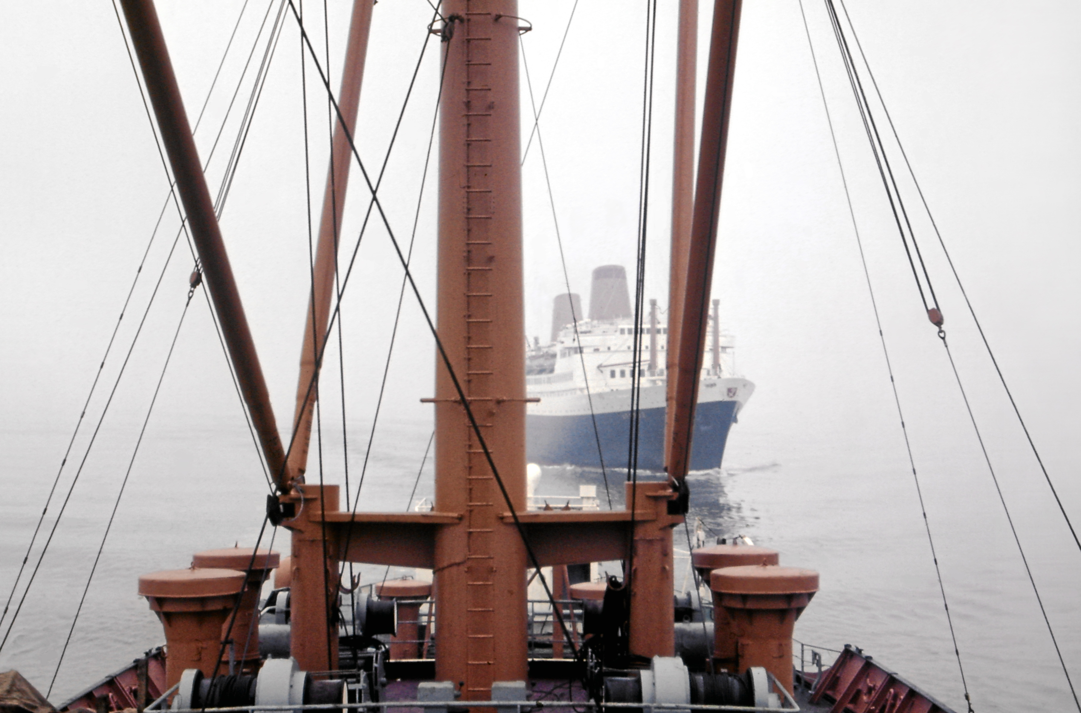 North German Lloyd liner Europa at the start of an overtaking maneuver by NDL cargo ship Siegstein on the outer Weser in 1966